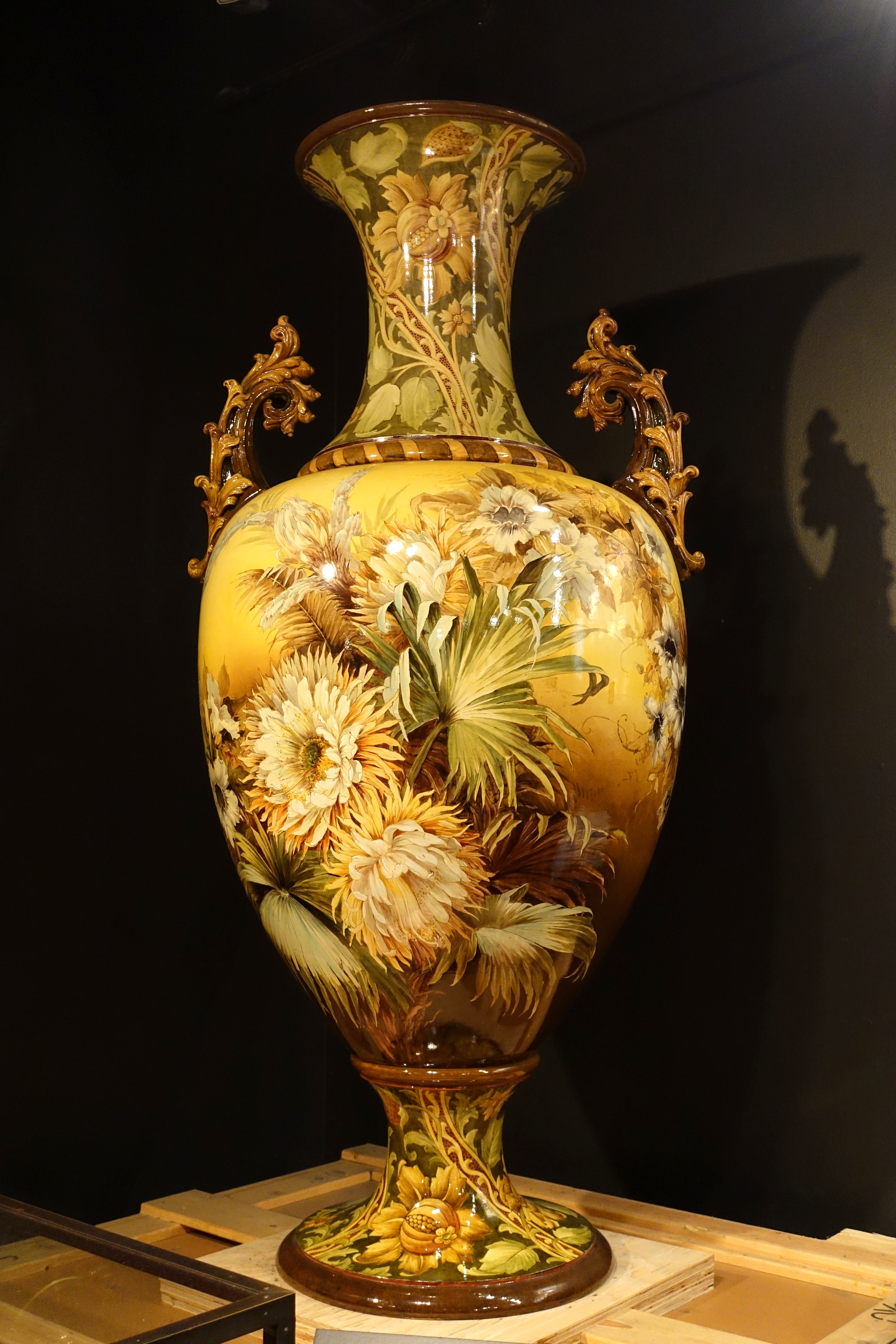 Exhibit in the Museum of Science and Industry, Chicago, Illinois, USA.